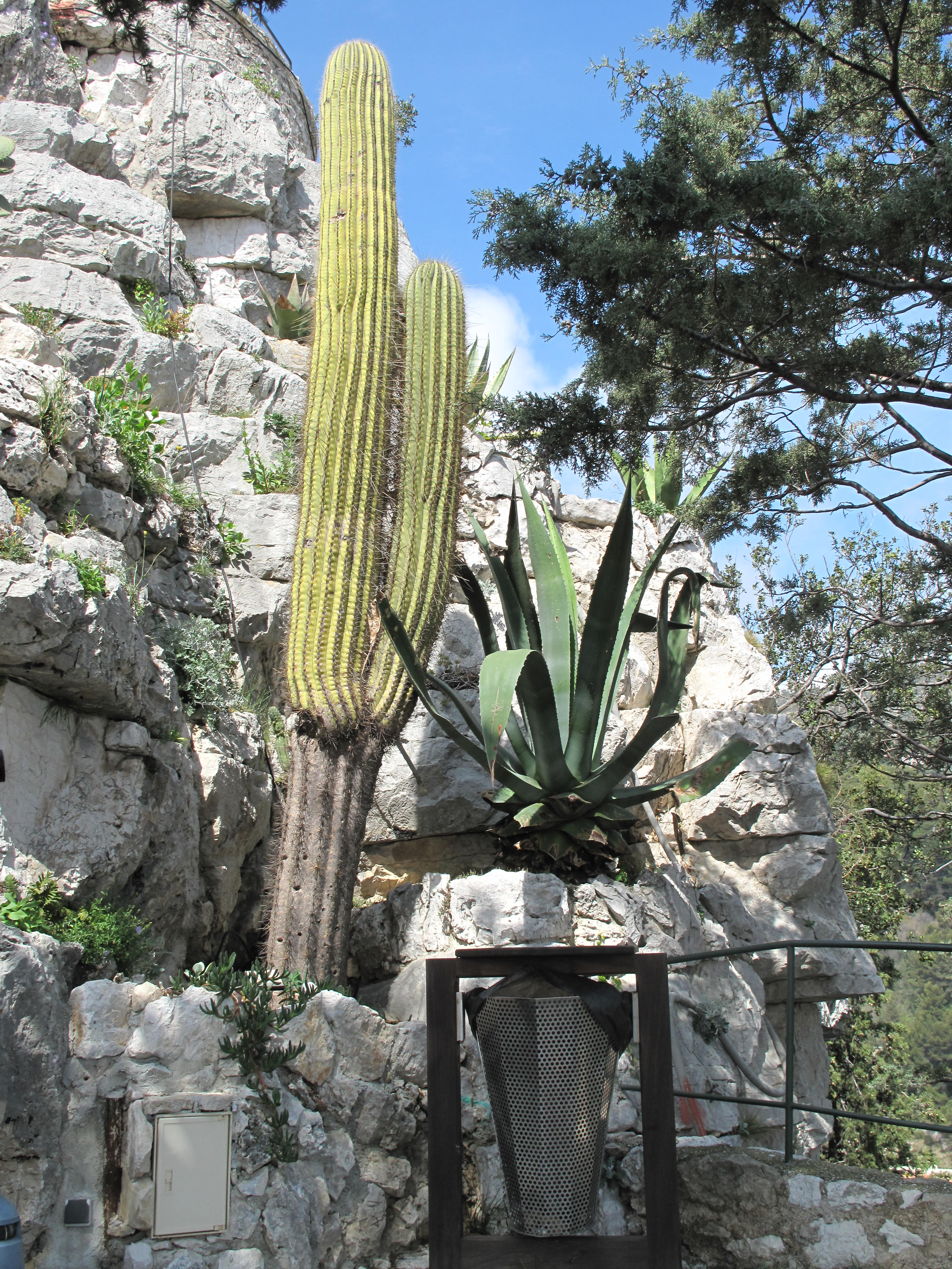 Trichocereus pasacana (or Echinopsis atacamensis) in the botanical garden of Eze (Alpes-Maritimes, France). Identified by botanic label.